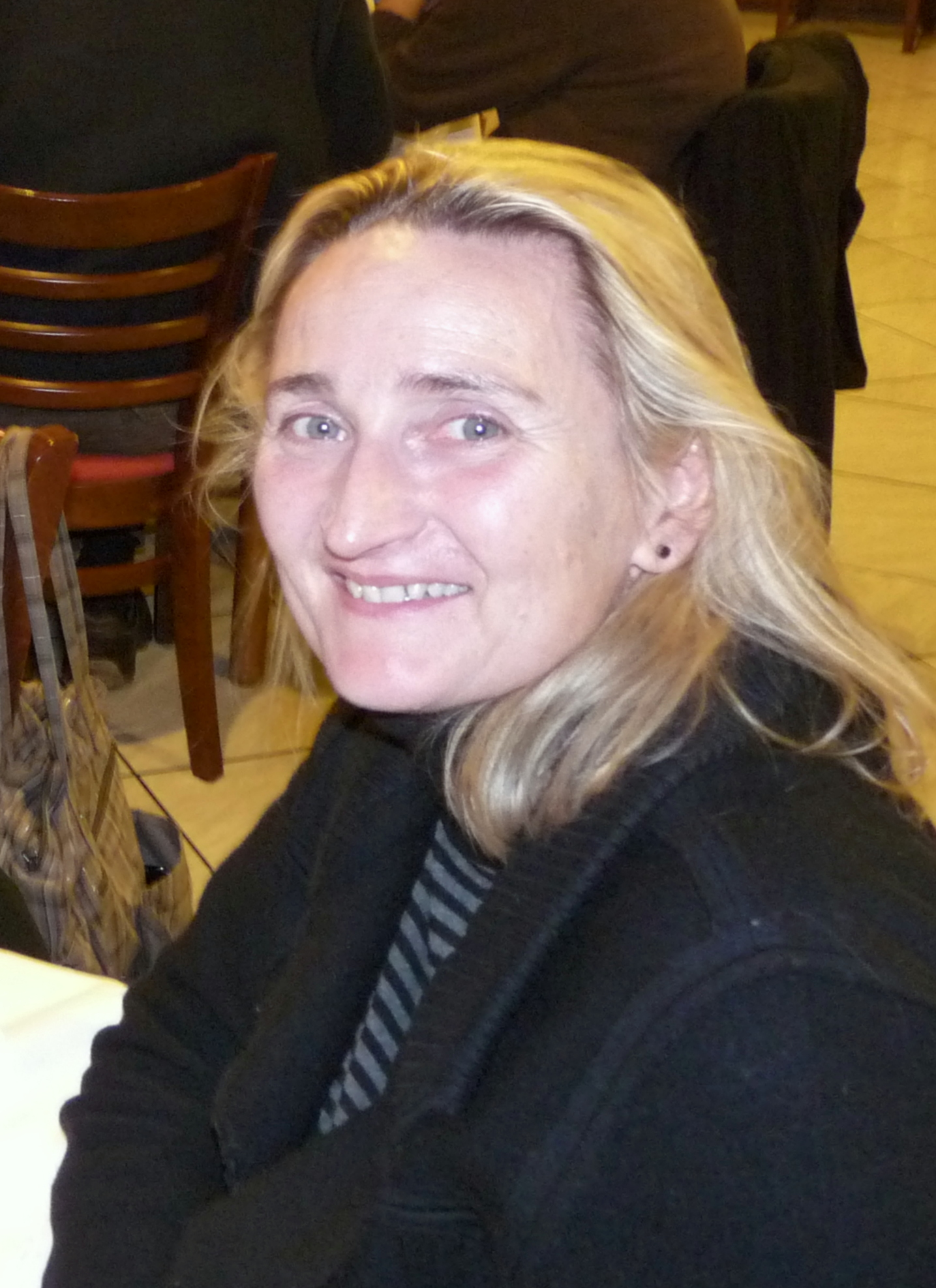 Maja Weiss